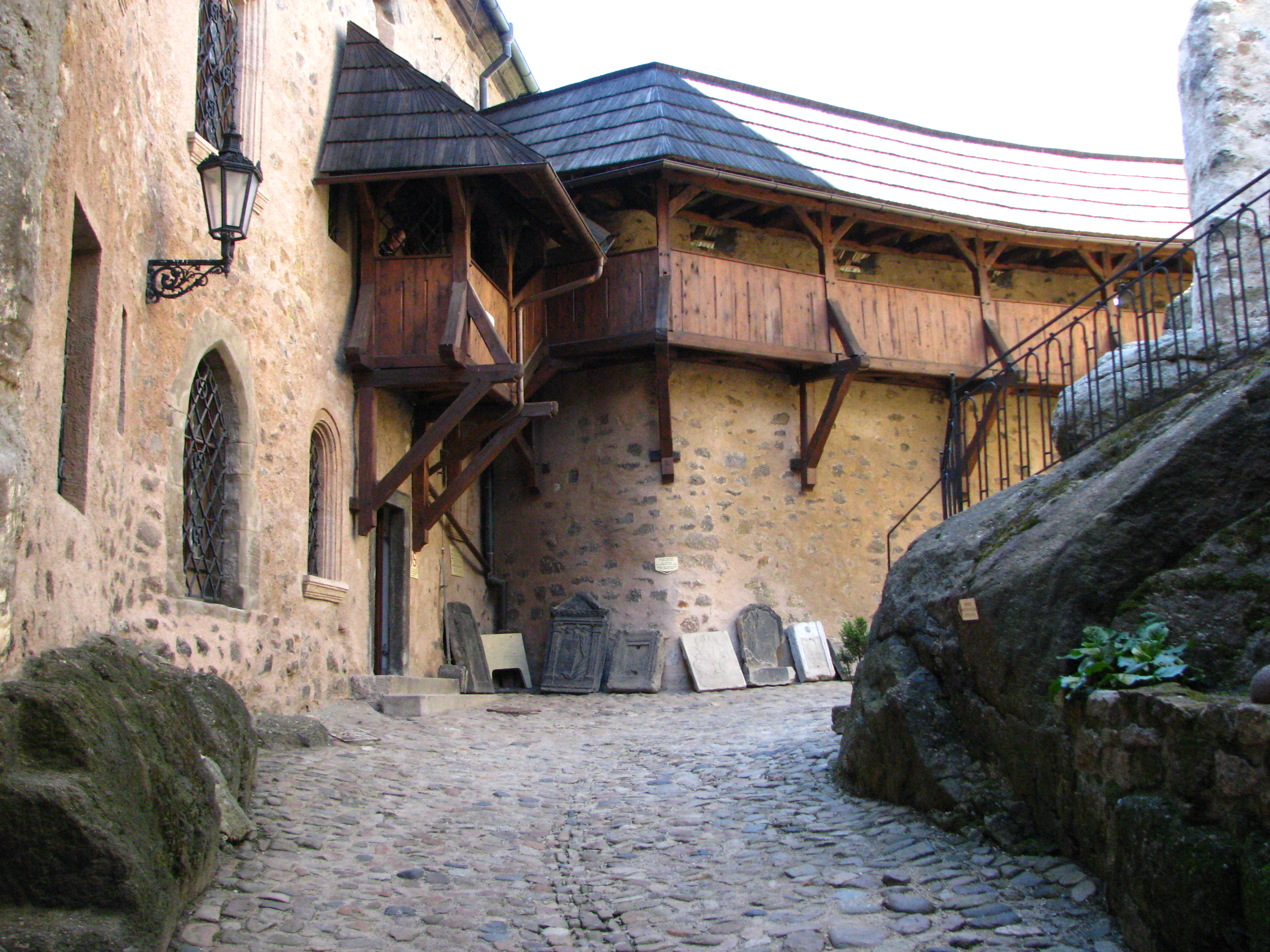 Loket Castle - View of Margrave's House entrance door.